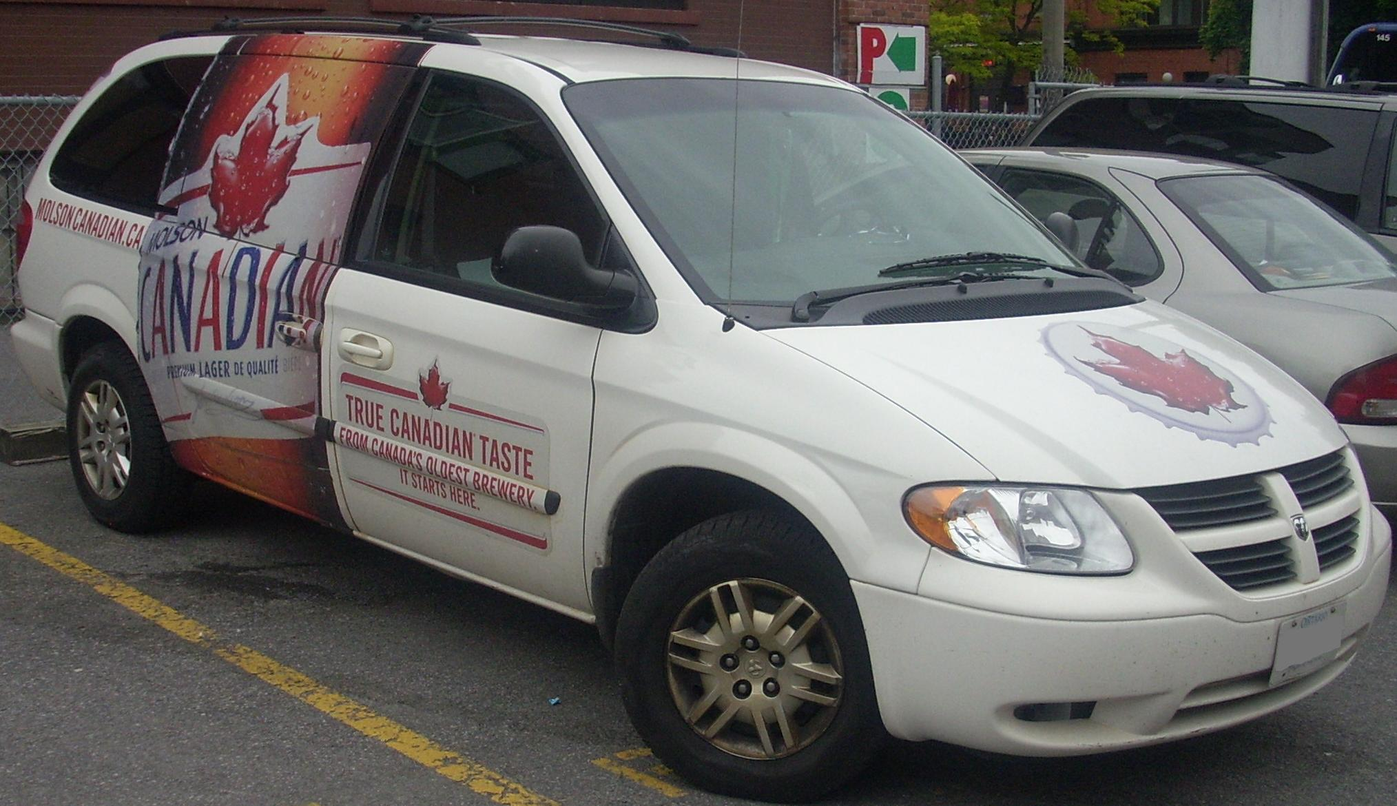 2005-2007 Dodge Grand Caravan photographed in Ottawa, Ontario, Canada at the Byward Market Auto Classic 2009.